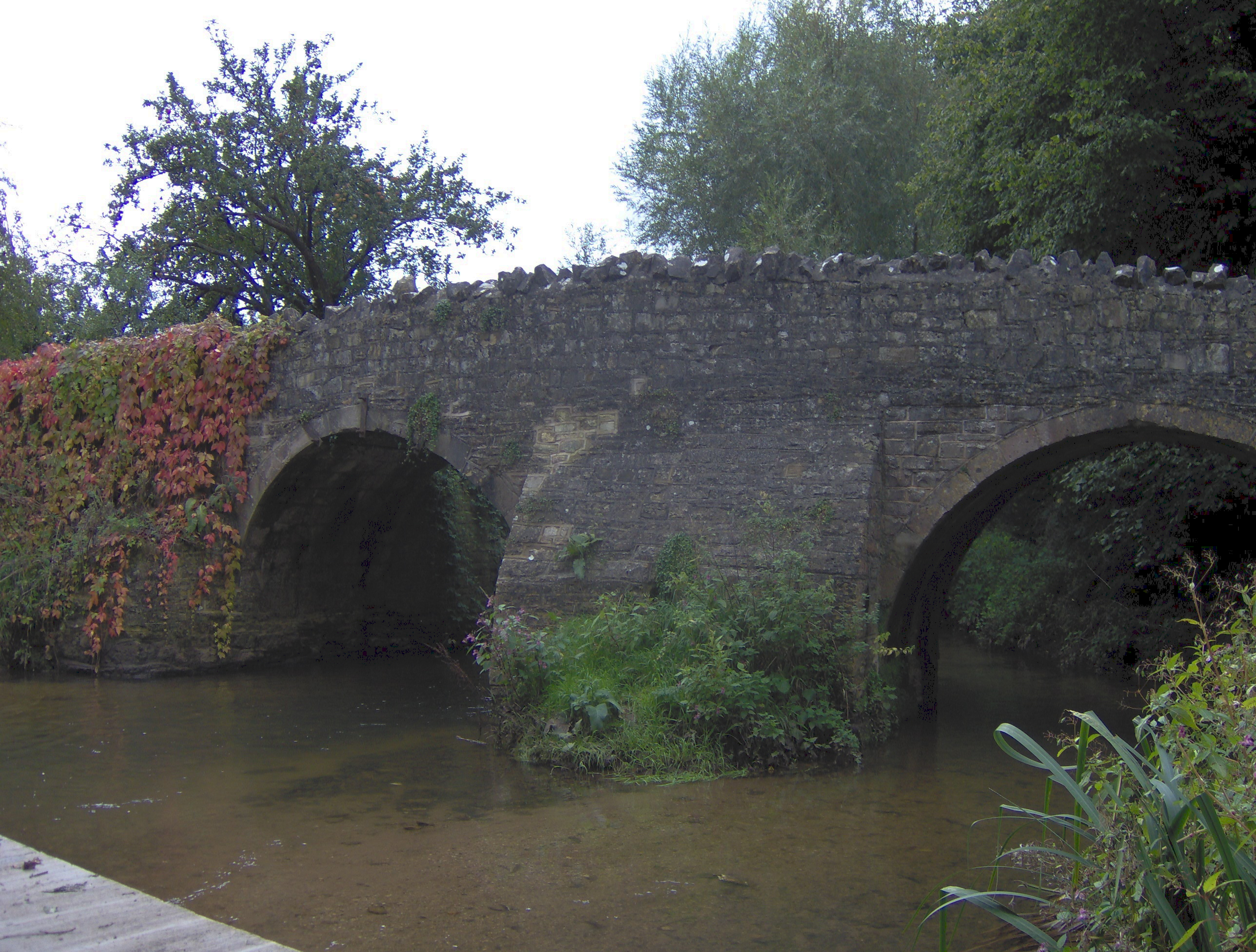 Late Medieval packhorse bridge over Wellow Brook at Mill Hill, Wellow, Somerset